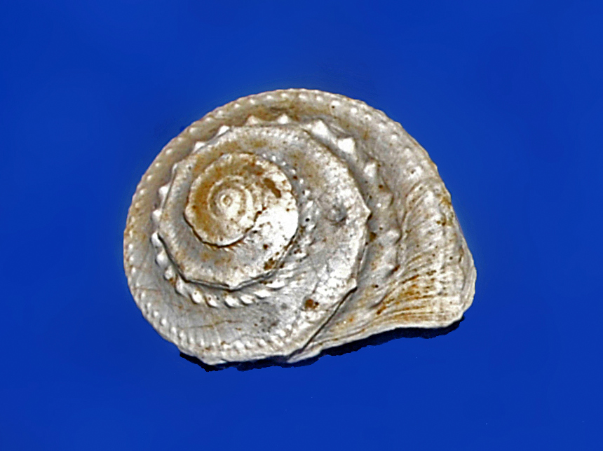 Fossil shell of Astraea fimbriata from Pliocene of Italy, on display at the Museo Paleontologico, Asti